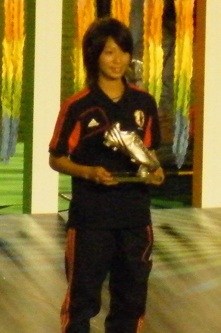 FIFA U-20 Women's World Cup 2012 Awards Ceremony